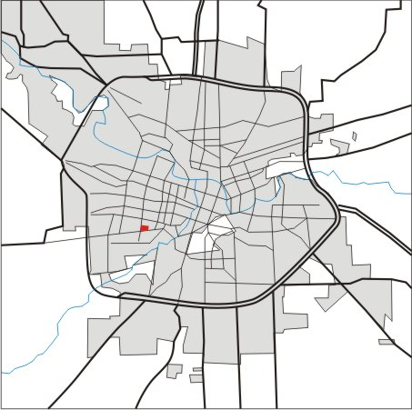 Los Naranjos Neighborhood in Córdoba, Argentina. Highlighted in red.